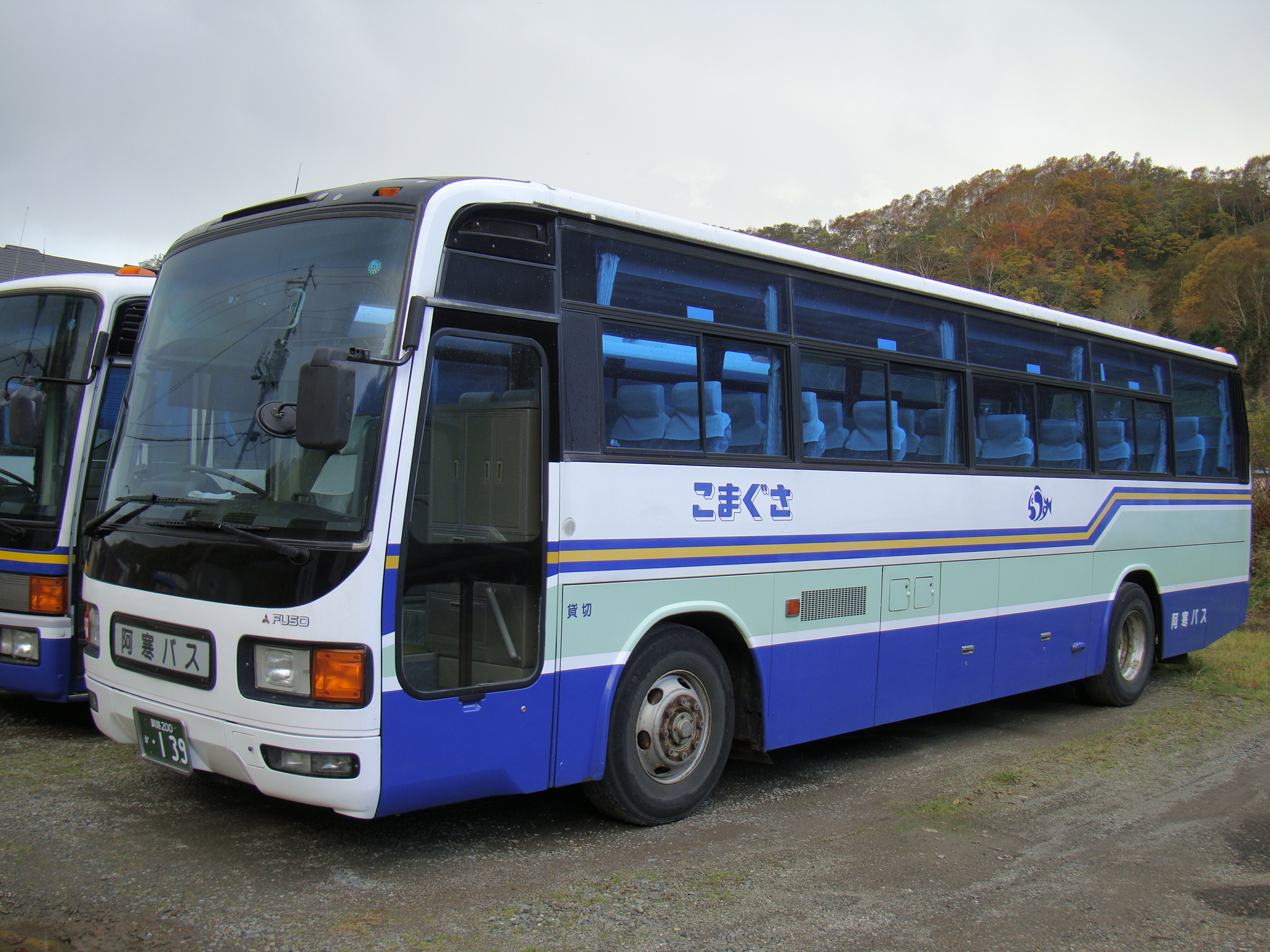 Rausu Town